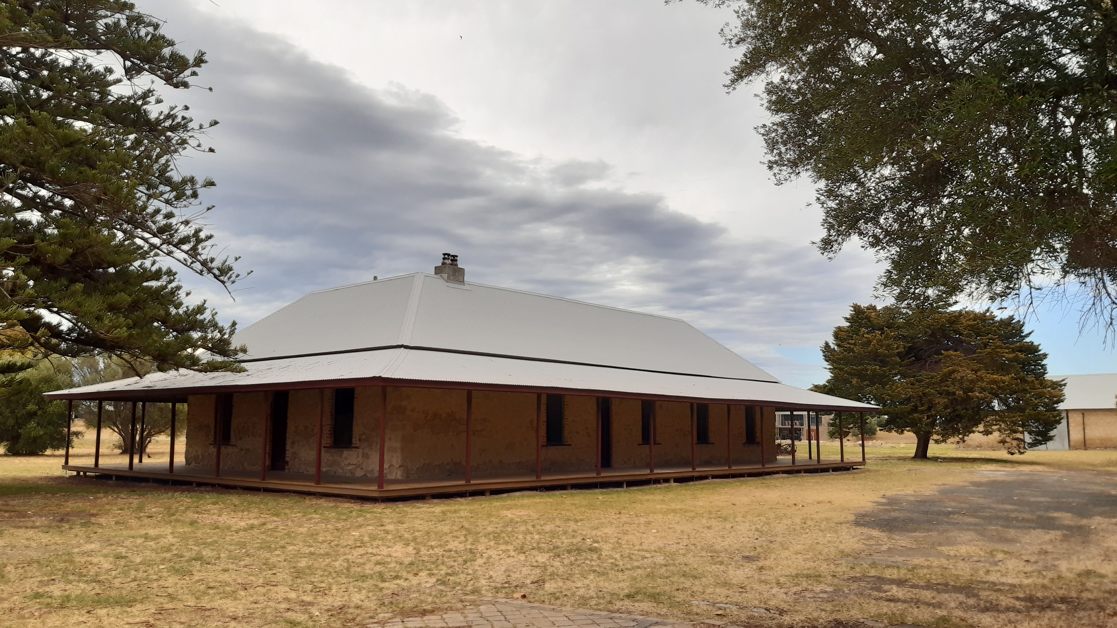 Historic Sutton's Farm, Halls Head, Western Australia, a State Register of Heritage Places in the City of Mandurah. The eleven-room homestead build in 1881.